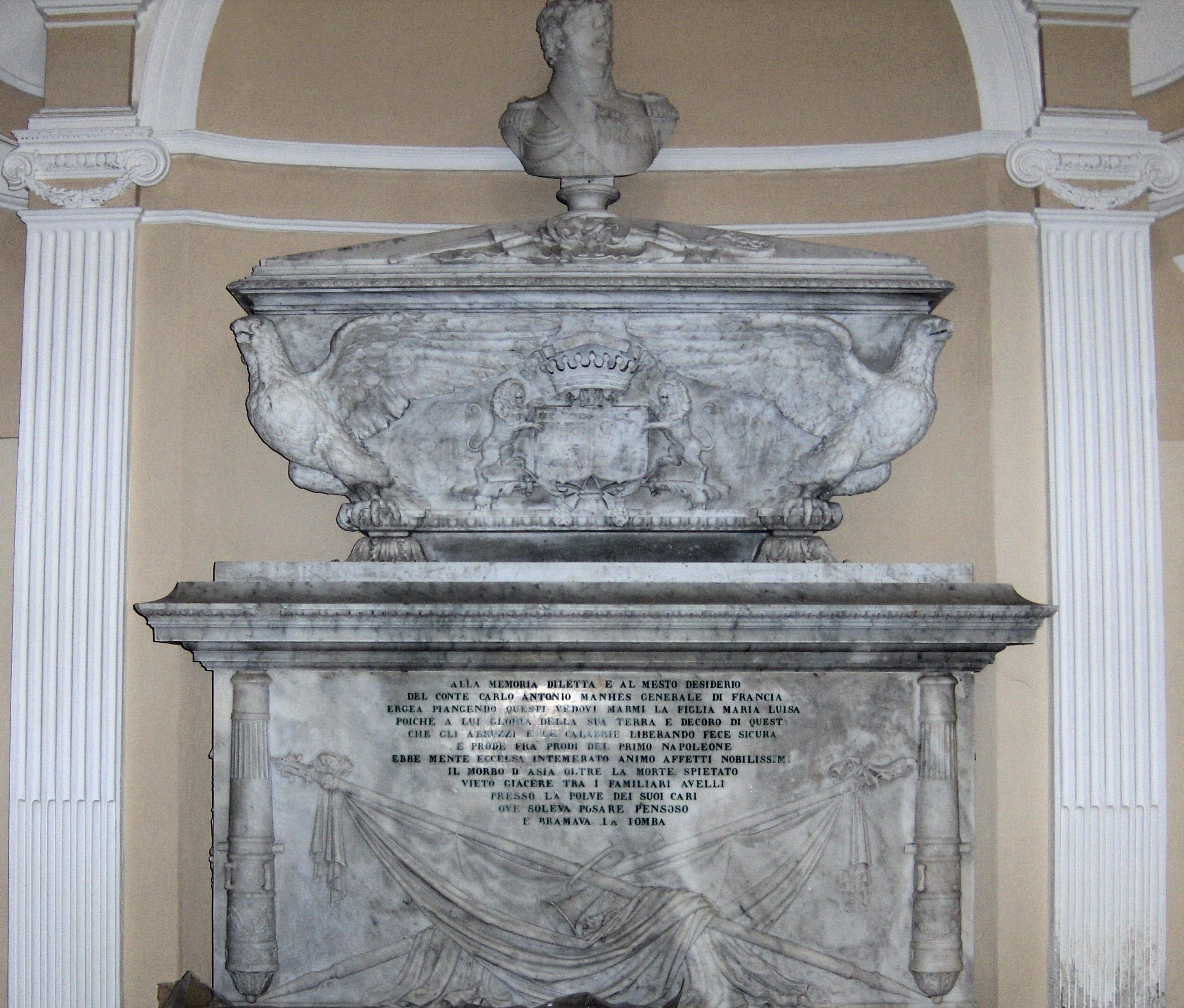 Tomb of Charles Antoine Manhès (Aurillac, 1777 – Napoli, 1854) in Benevento, Chiesa di San Domenico. Sculptor: Giuseppe Vaccà (1855).